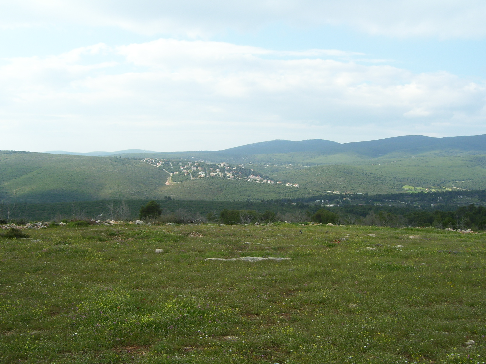 Panorama, village in west Attica